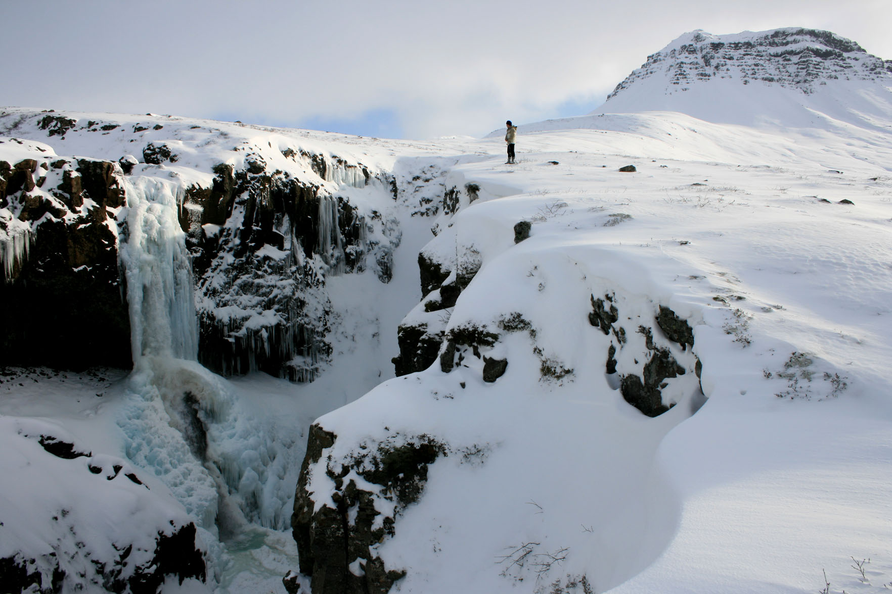 Hengifoss í Norðfirði